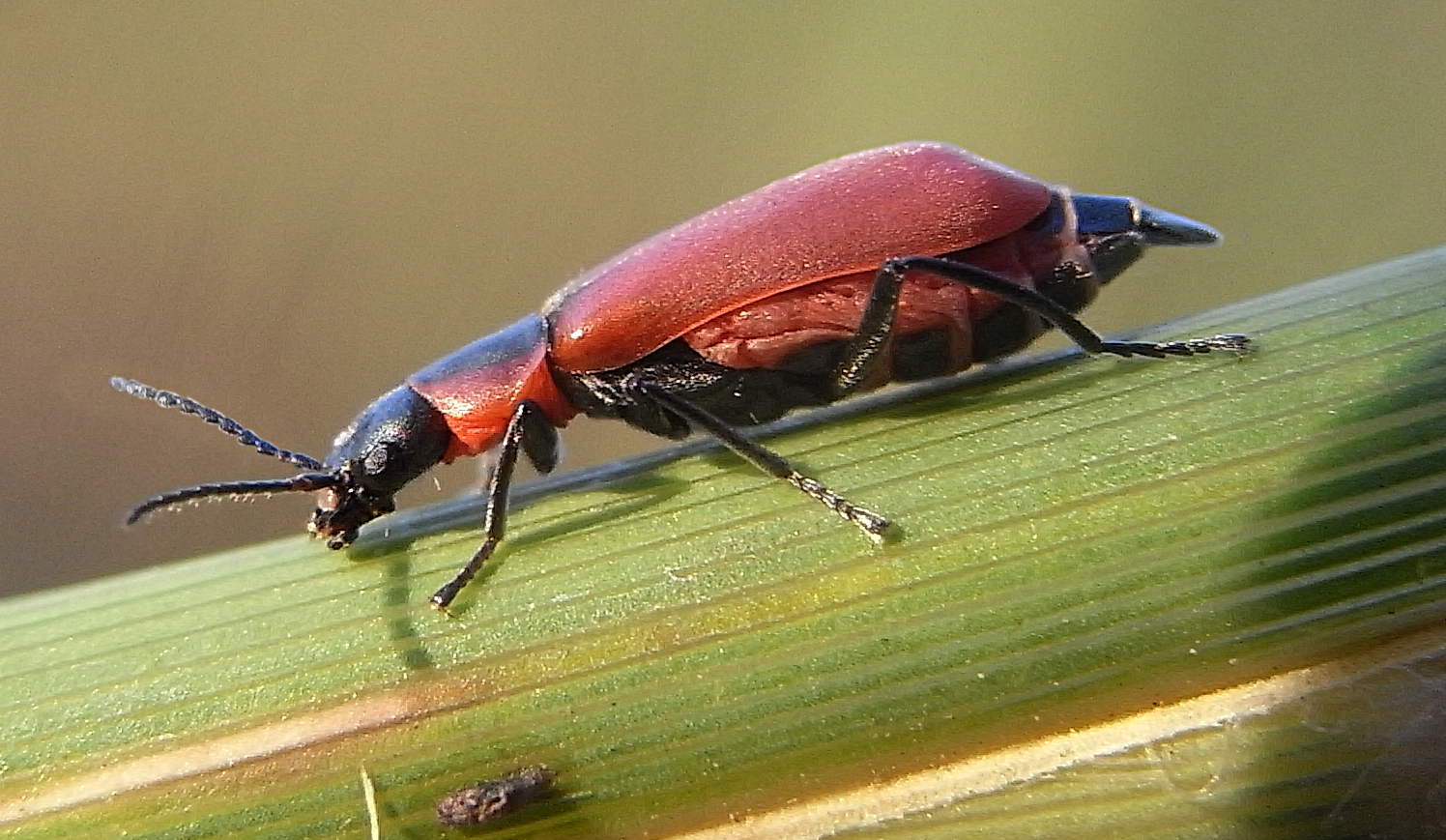 Anthocomus rufusRicoh R8